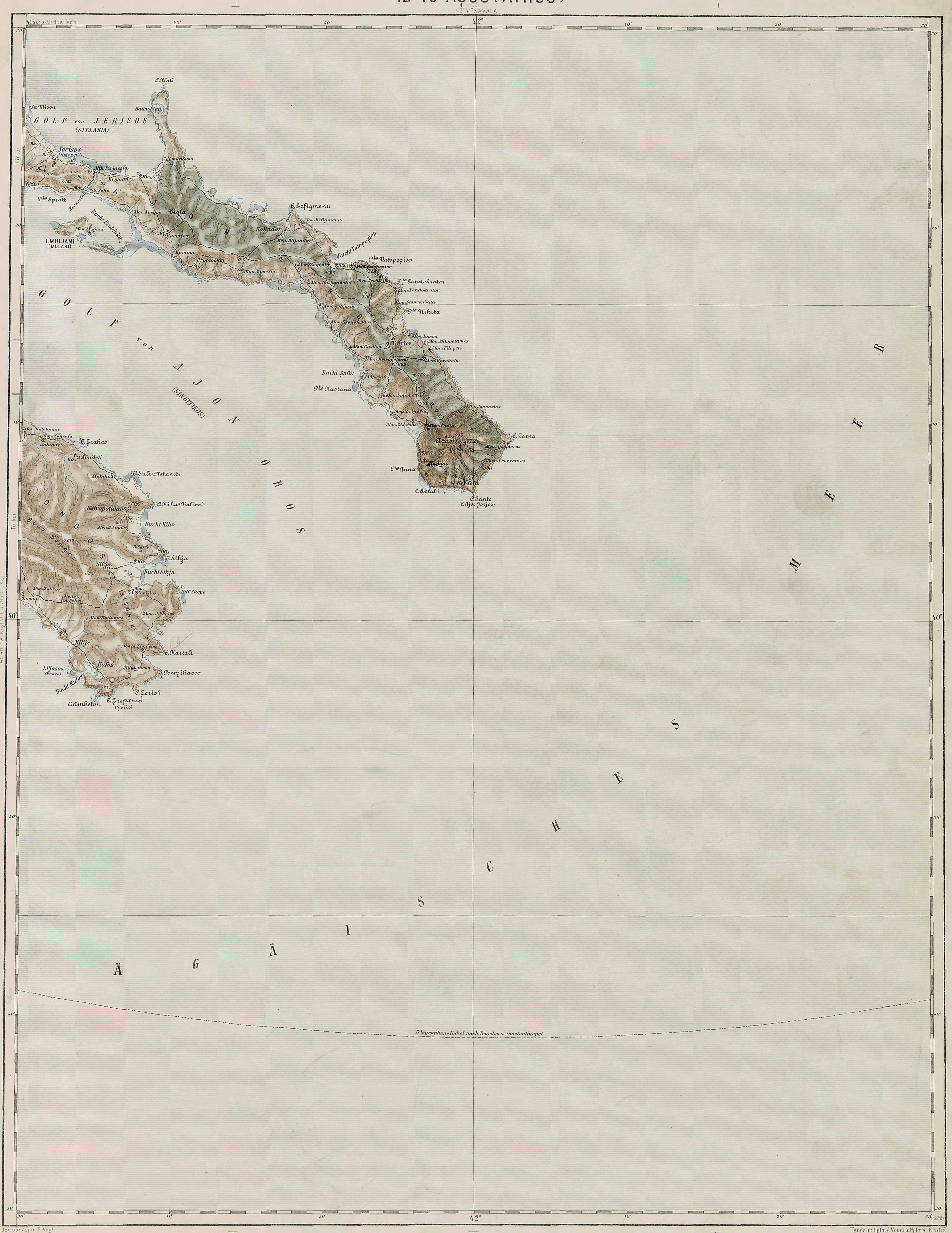 3rd Military Mapping Survey of Austria-Hungary - Athos